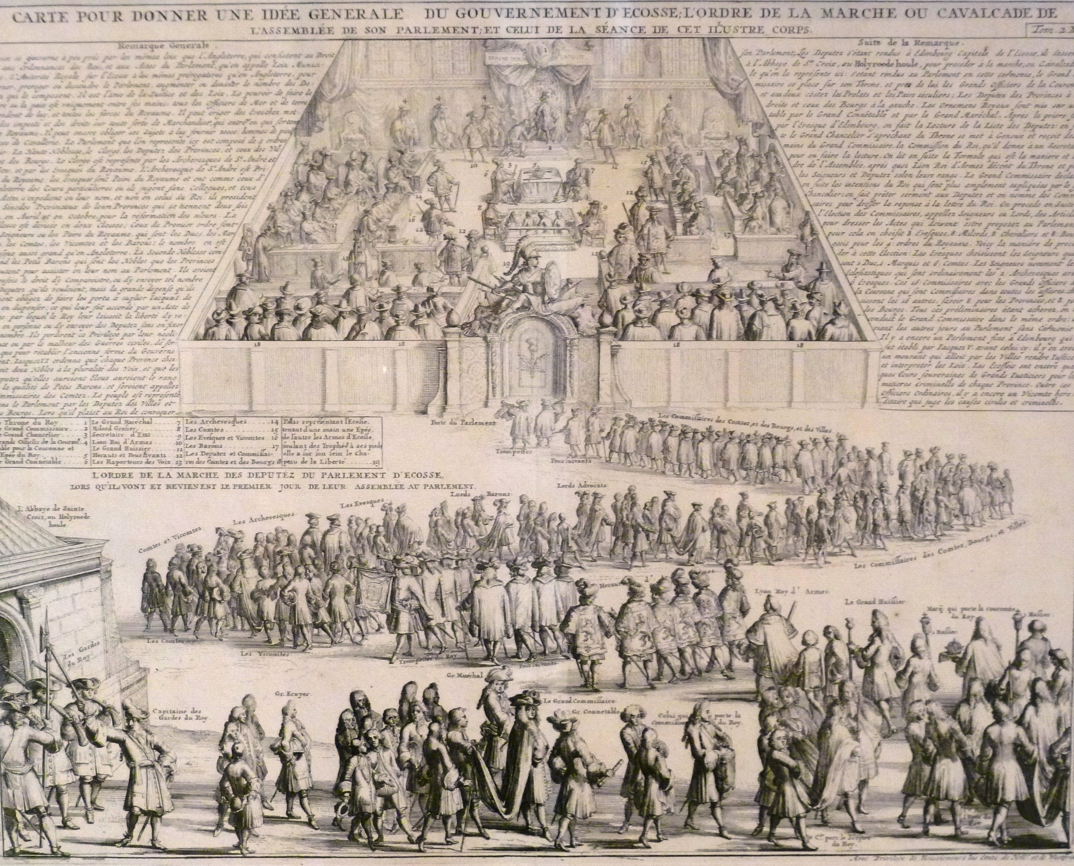 'The Downsitting of the Scottish Parliament' from Châtelan and Gueudeville's 'Atlas Historique', 1720 (slightly cropped left and right). This image is annotated on its description page at Commons.